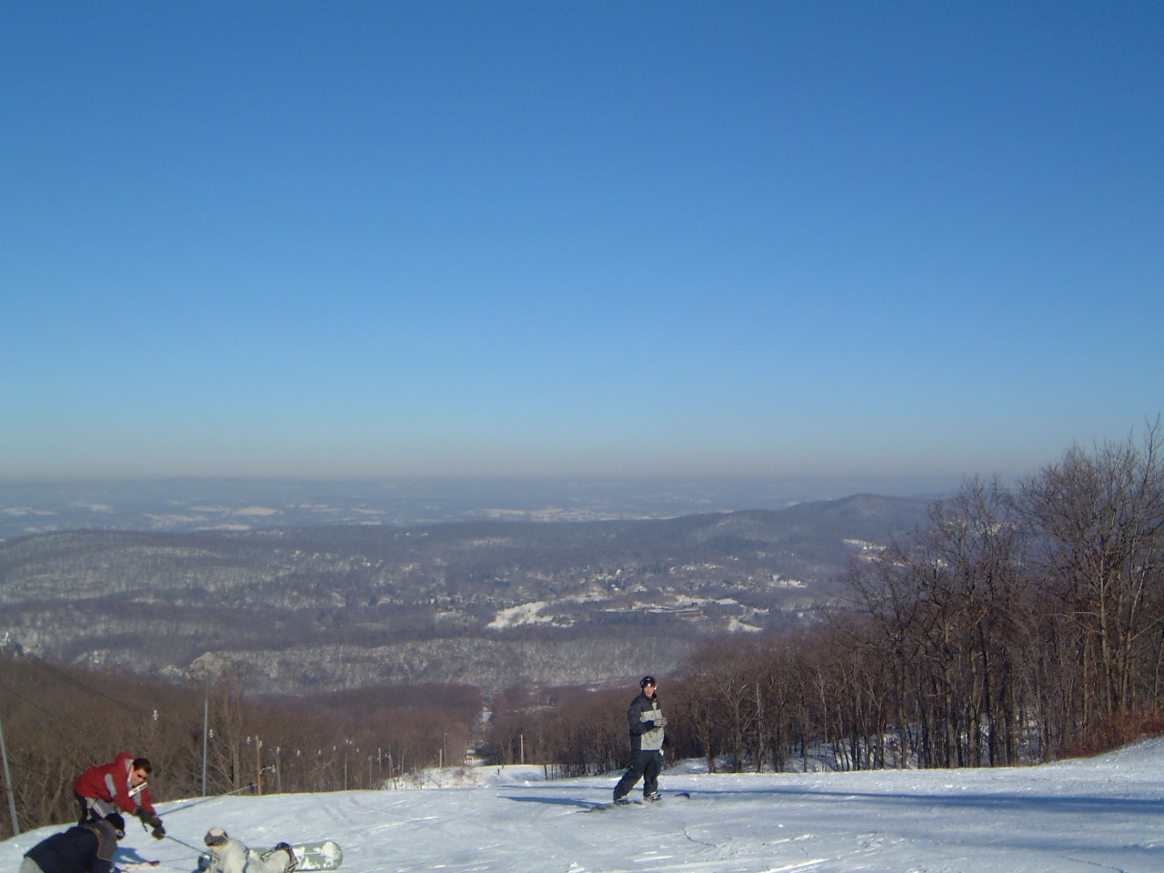 The view westward from the Bear peak of the Mountain Creek ski resort in Vernon, United States. In the distance is the Vernon Valley, part of the Great Appalachian Valley.